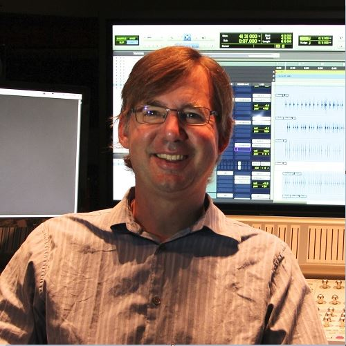 Person sitting in front of music console